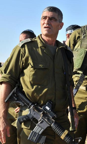 The commander of the IDF Southern Command Tal Russo, overlooking the site of terror strikes in Southern Israel, August 2011